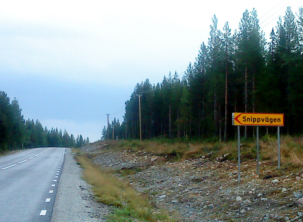 The road to Snipp, north Sweden